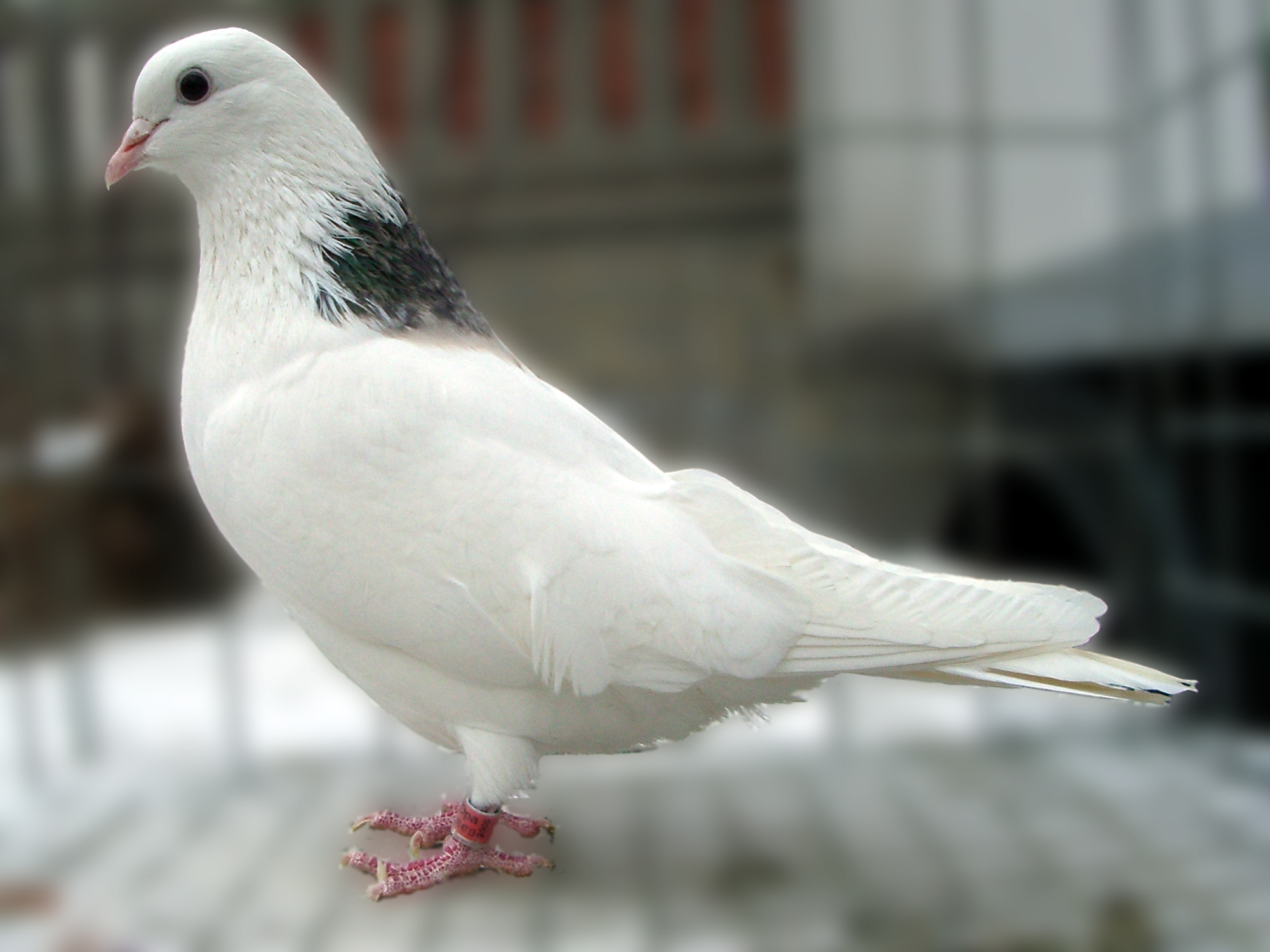 Permian High-flying Maned Ash Grey Pigeon